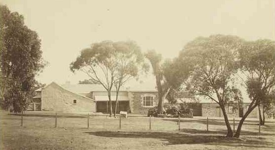 Glen Osmond: "Benacre" Benacre house (without land) is at 6 Benacre Close, off Glen Osmond Rd between Fisher St and Fergusson Ave. 1844 a single-storeyed house was built by G.F. Shipster after the subdivision of section 270 by the main road it passed to Robert Cock. 1846 Purchased on 16 acres by William Bickford who planted the first garden and built a portion of the residence. The next owner was T.B. Strangways, followed by Thomas Graves, who had the grounds replanted as a shrubbery and built 'the present two-storey house.' mid-1870's: Henry Scott, Mayor of Adelaide. During Scott’s tenure of some 30 years, he hosted countless social events. 1906-1923 John Lewis At the death of Hon. John Lewis the property was subdivided into 39 building blocks. 1924-1968 Gretta Lewis ... 1970 Further subdivision: Benacre subdivision [fifteen magnificent residential allotments, the gracious mansion 'Benacre', two storeyed stone mews, to be sold by auction on the estate 2nd May, 1970 at 10.30 a.m.] Adelaide : Matters & Co. Pty. Ltd. [and] Theodore Bruce & Co. Pty. Ltd. ...